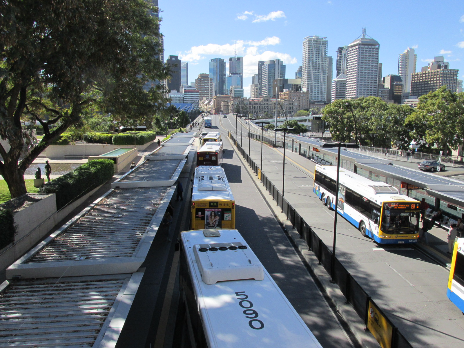 Cultural Centre bus station in South Brisbane, Queensland